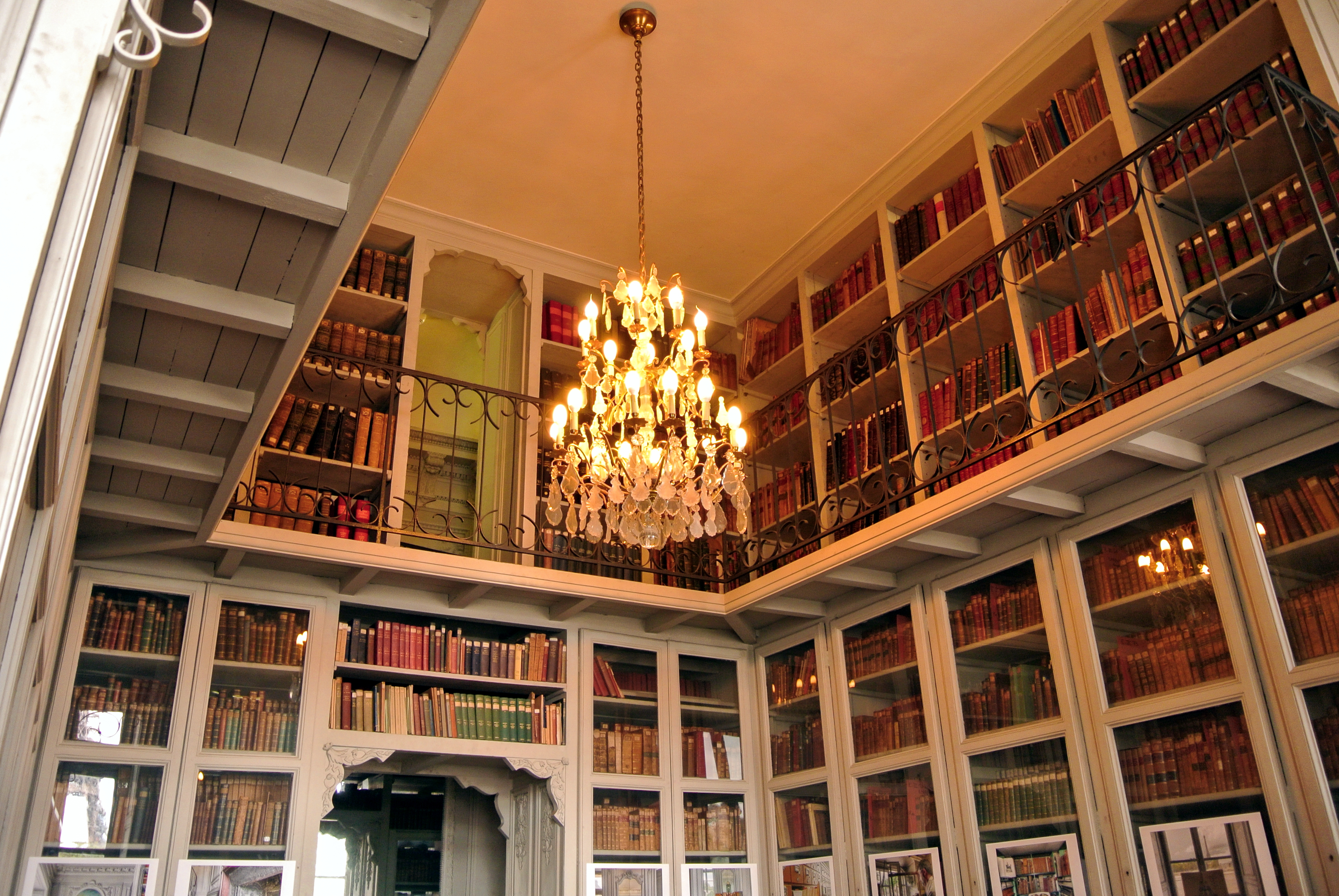 A section of the library of the "école Militaire", Paris